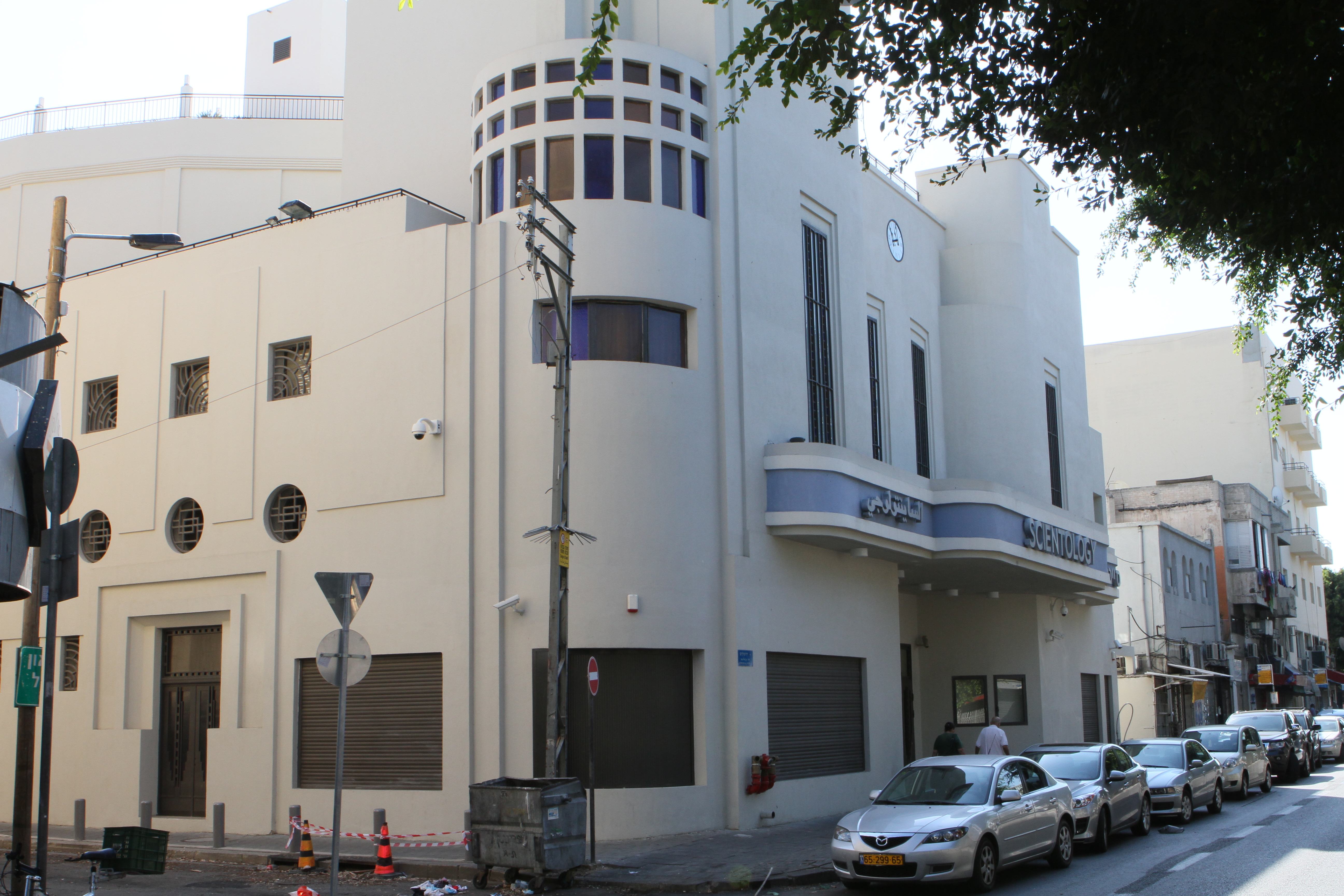 Alhambra Former Theater Renewed Building in Jaffa, currently used as the Scientology Center